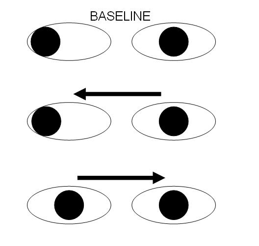 Schematic representation of one and a half syndrome.